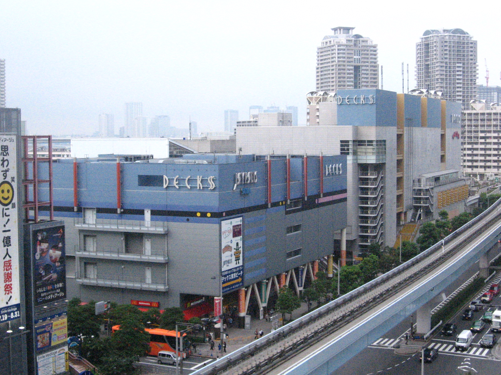 DECKS Tokyo Beach from Daiba Tokyo.